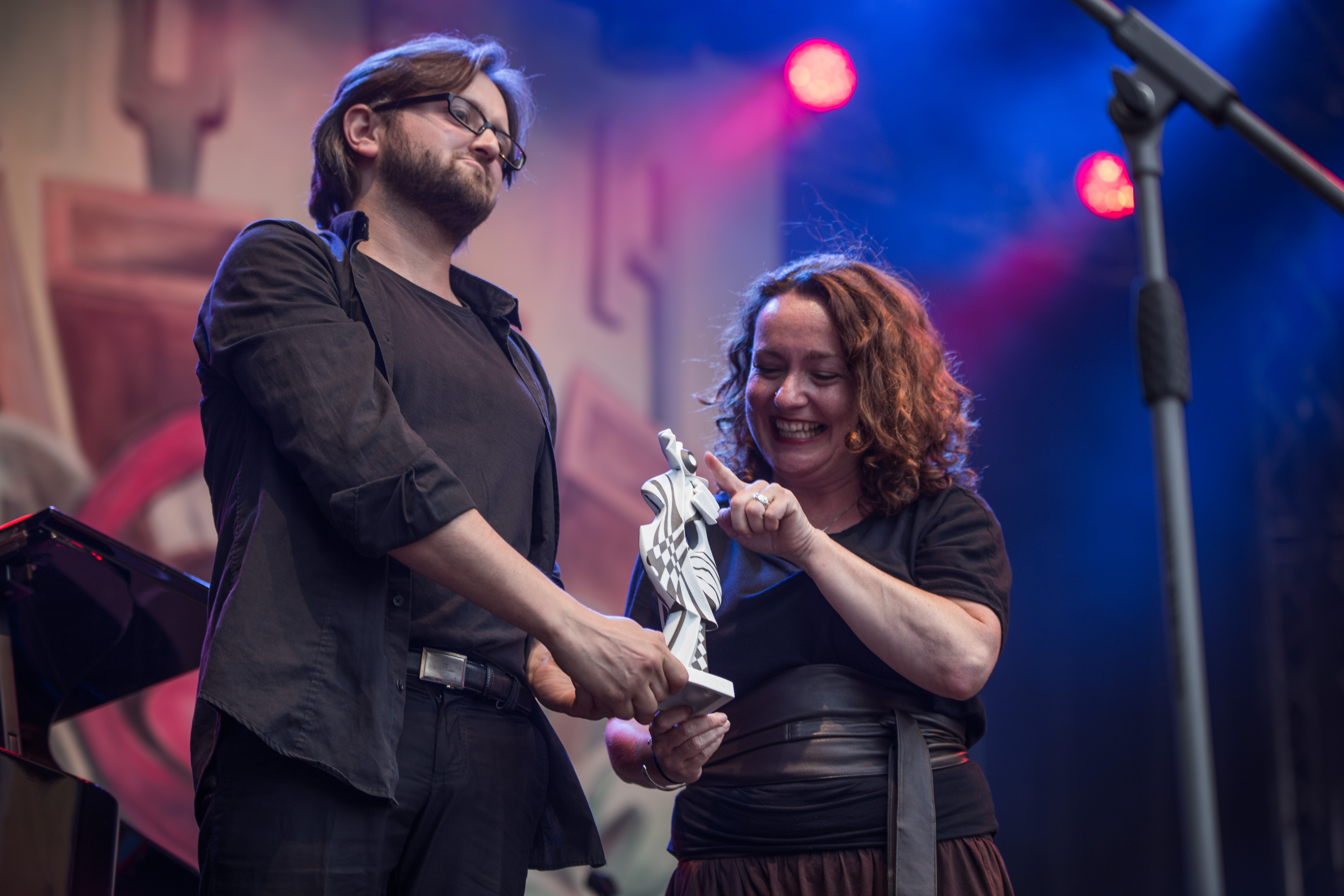 Festivalsommer This photo was created with the support of donations to Wikimedia Deutschland in the context of the CPB project "Festival Summer".